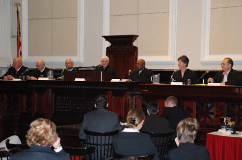 Judges hearing the final arguments of the championship round of the 2008 National Moot Court Competition at the New York City Bar Association.